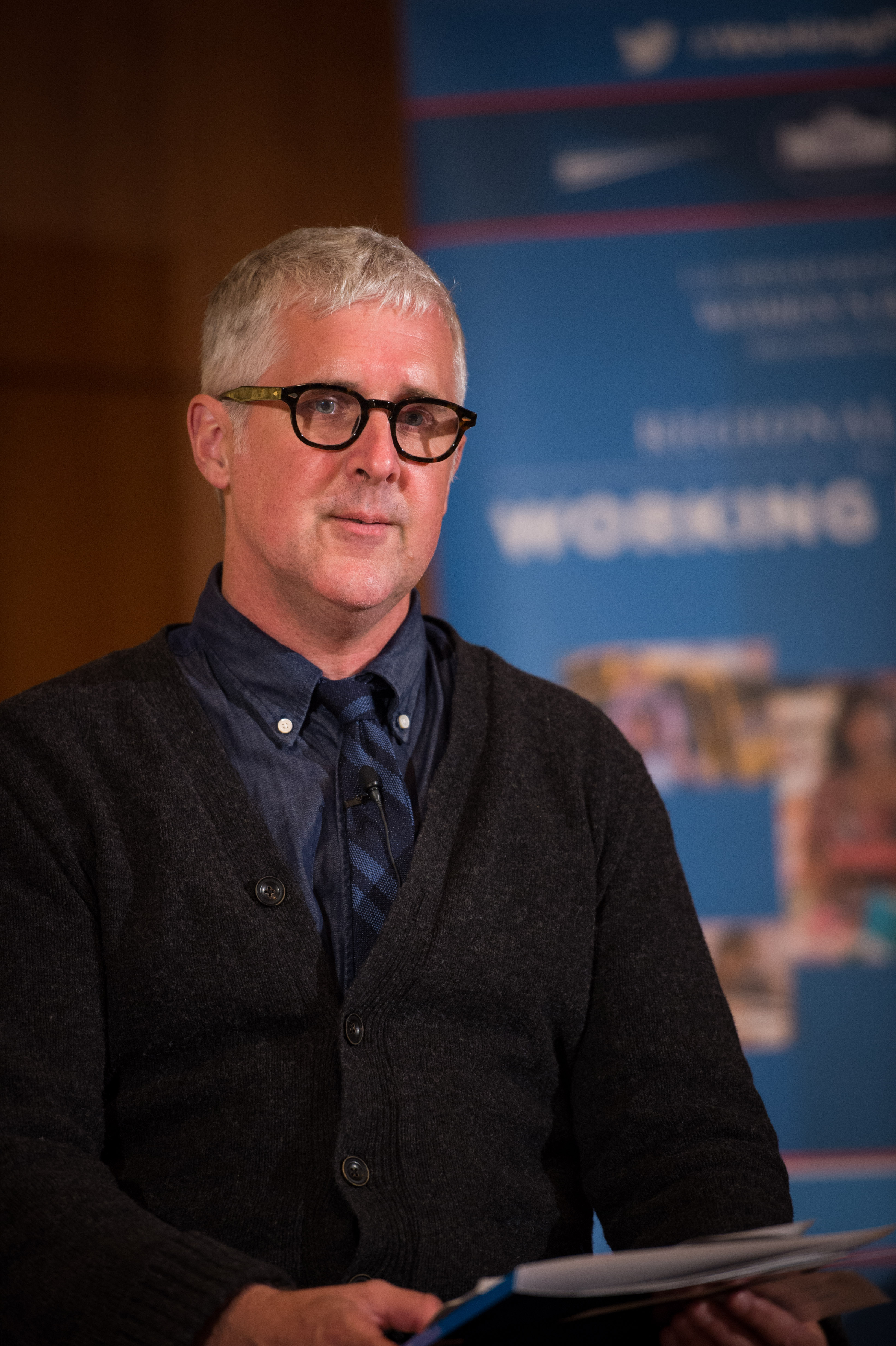 May 27, 2014 - San Francisco, California, United States: James Freeman, CEO Blue Bottle Coffee speaks on a panel on The California Experience and the Business Case for Working Family Policy at The Department of Labor Regional Forum in San Francisco as part of the White House Summit on Working Families in the Milton Marks Auditorium, San Francisco, California.